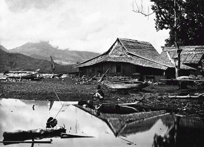 House at the beach